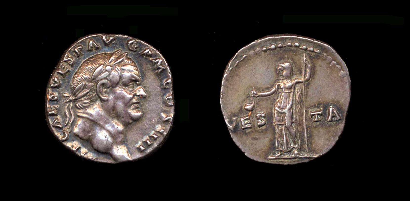 Vespasian, R0407 This was added from the site called under the name portableantiquities. See source for details.